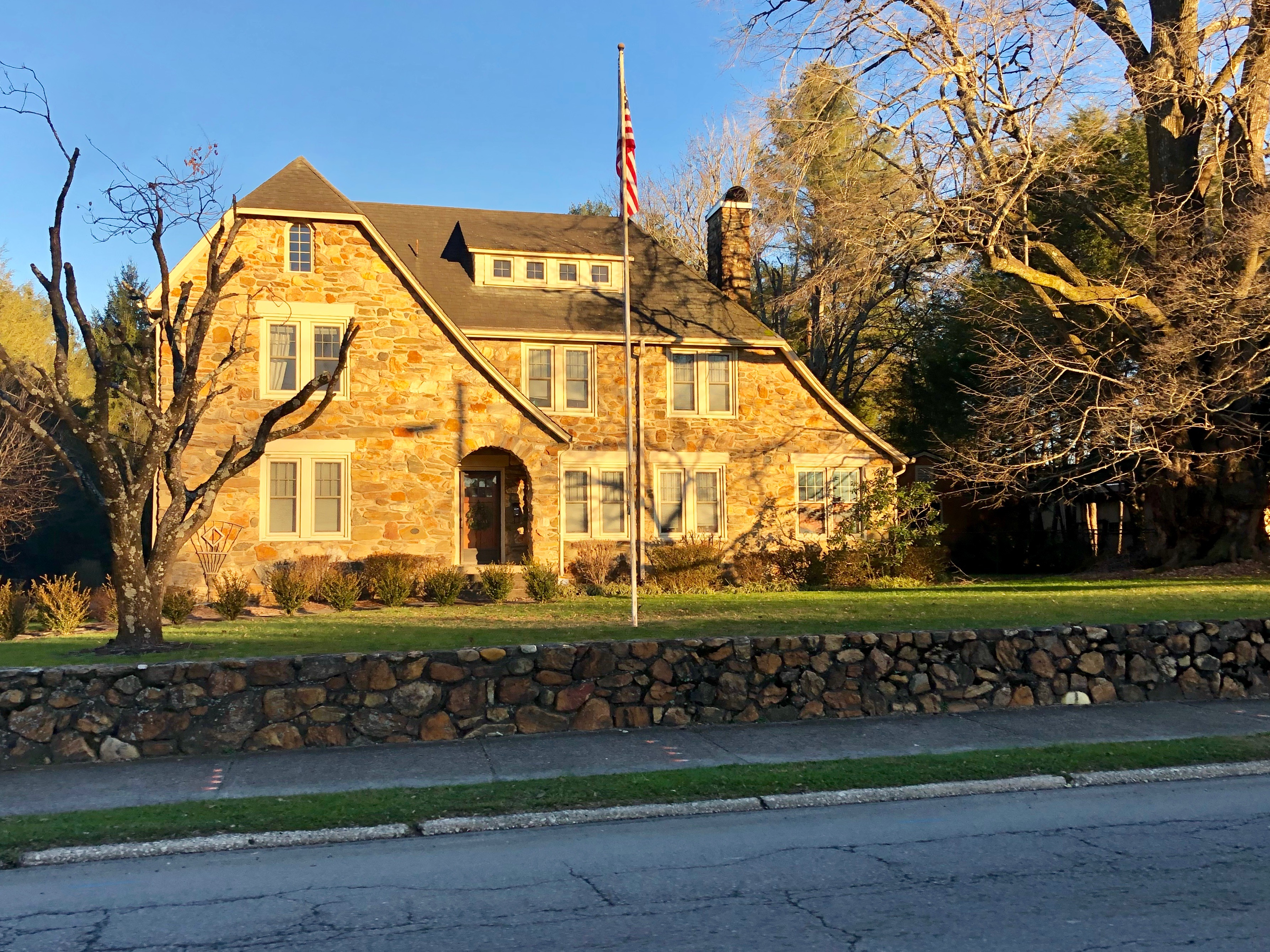 Broad Street, Brevard, NC